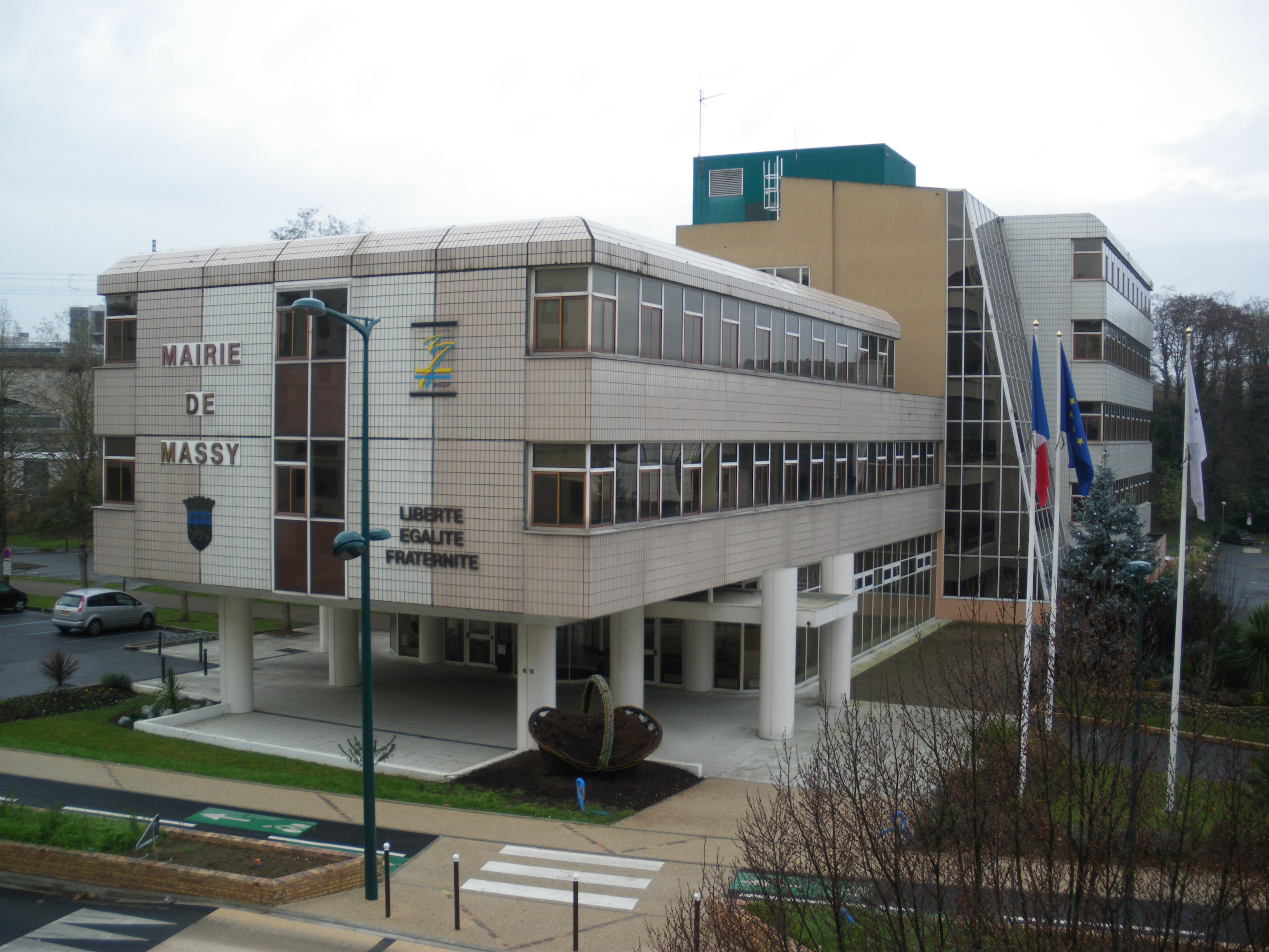 Massy town hall, Essonne Departement, France